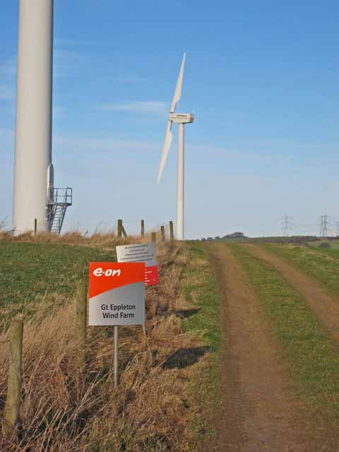 Great Eppleton windfarm This four-turbine windfarm was one of the first to be constructed in County Durham (1997) and is rather unusual in that the turbines only have two blades as opposed to the more usual three.